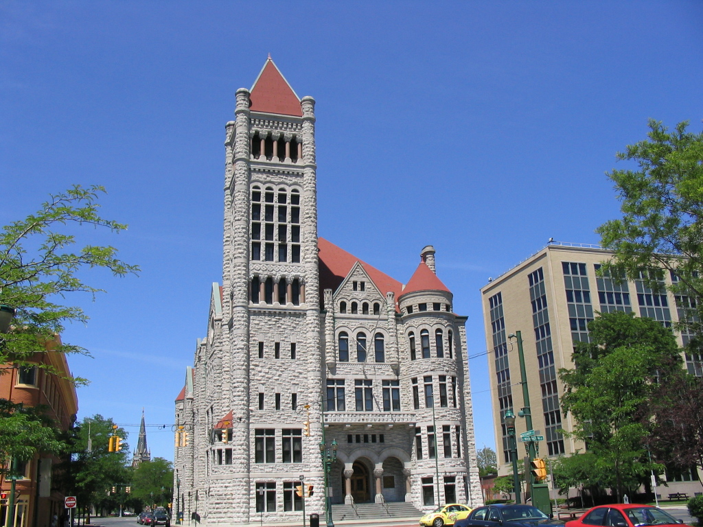 photo of the Syracuse City Hall building, taken by me on June 12, 2004